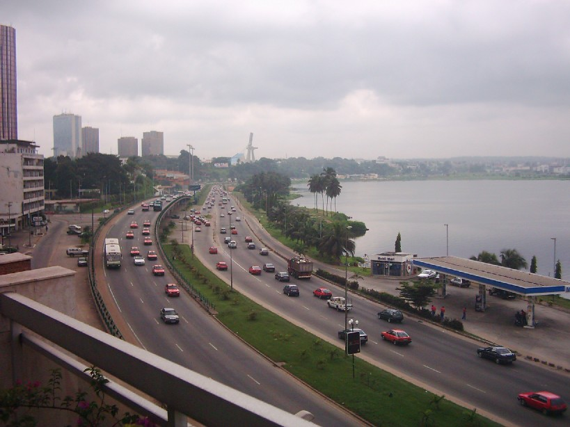 Road along Ébrié Lagoon in Plateau District, Abidjan, Côte d'Ivoire